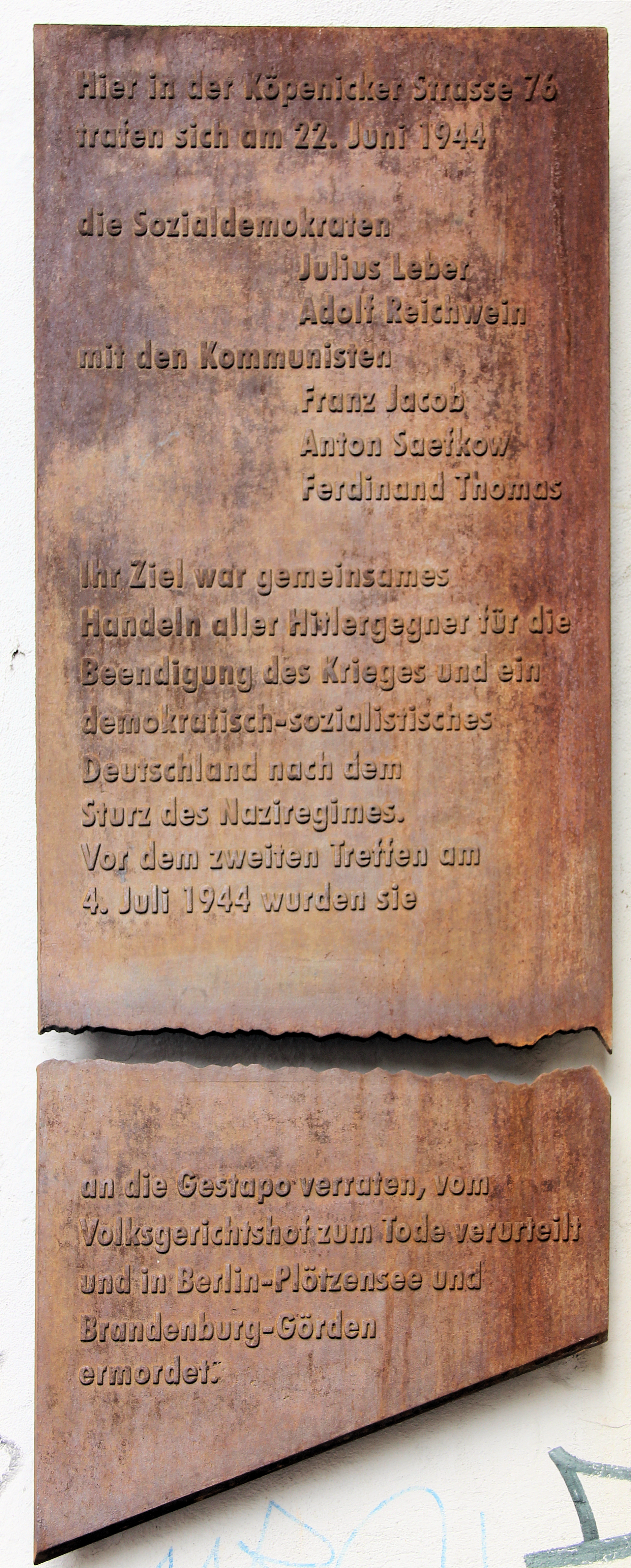 Memorial plaque, Julius Leber, Adolf Reichwein, Franz Jacob, Anton Saefkow, Ferdinand Thomas, Köpenicker Straße 76, Berlin-Mitte, Germany Koordinate:52°30′40″N 13°25′2″E / 52.51111°N 13.41722°E